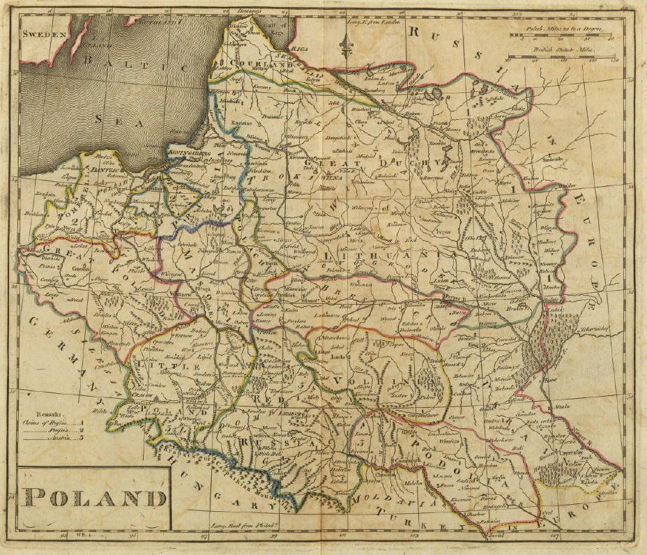 English map of Poland - XVIII century